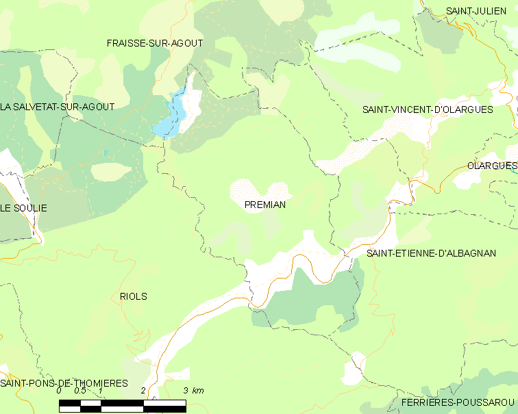 Map commune FR insee code 34219.png - Prémian